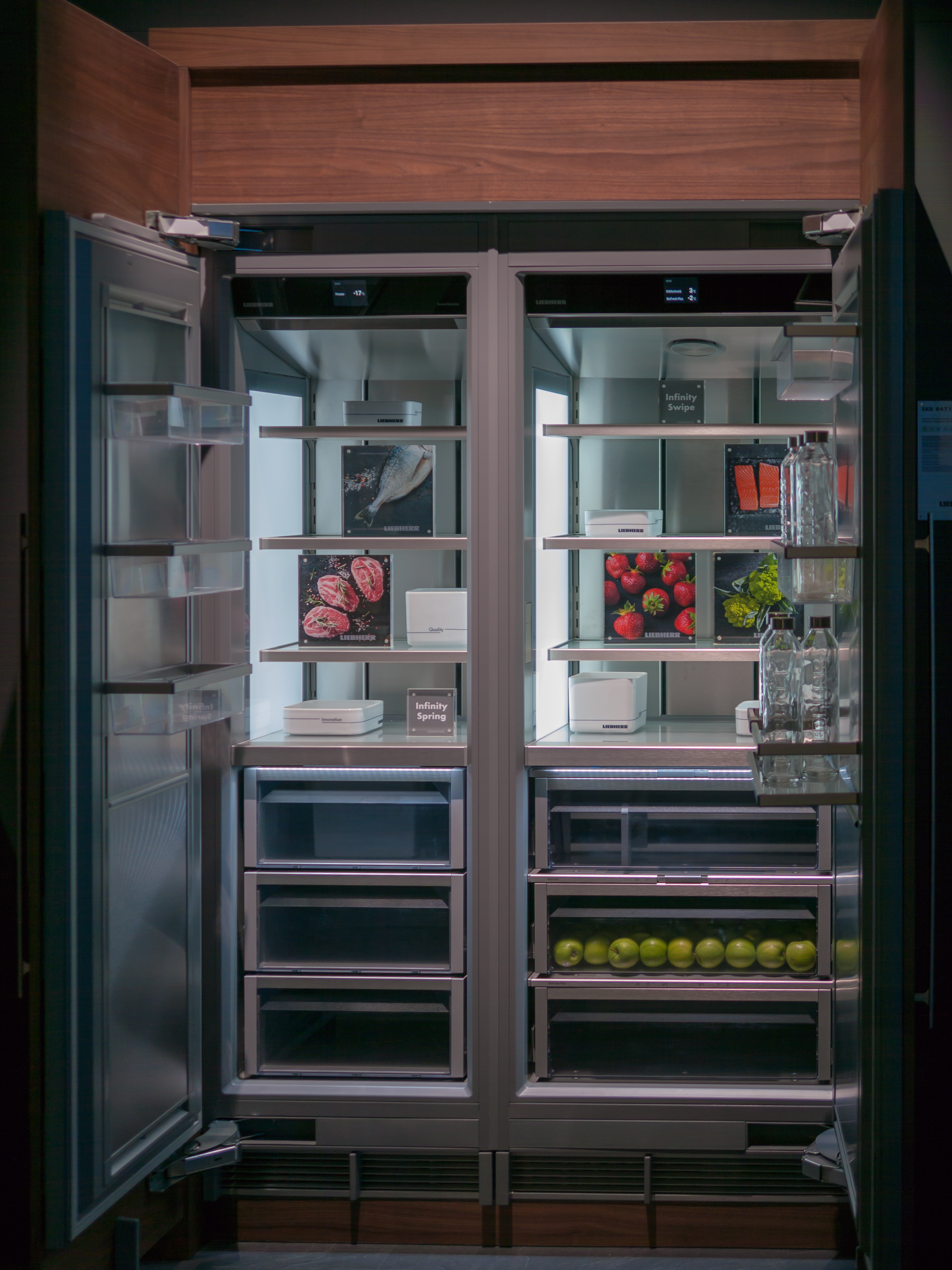 Liebherr, Internationale Funkausstellung 20158, Berlin